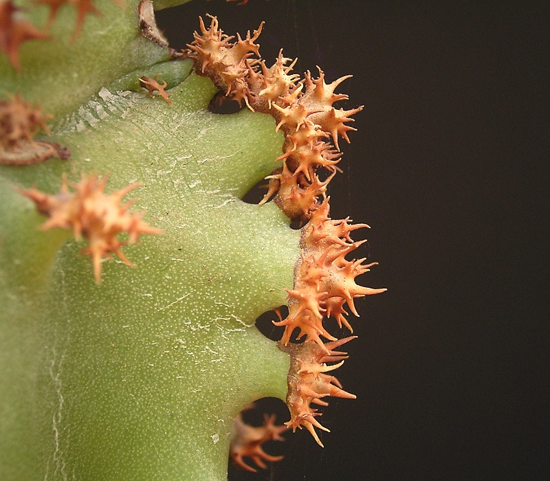 Description: Monadenium spectabile - stipules Source: self-made Date: created 10. Jul. 2006 Author: Frank Vincentz Permission: GFDL (self made) Other versions of this file: available on request